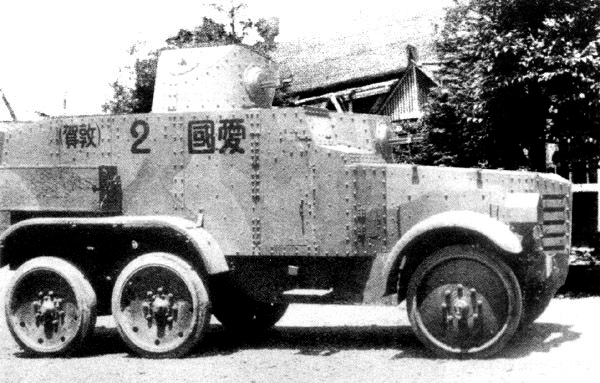 A Type 92 Chiyoda Armoured Car of the Imperial Japanese Army, 1930s